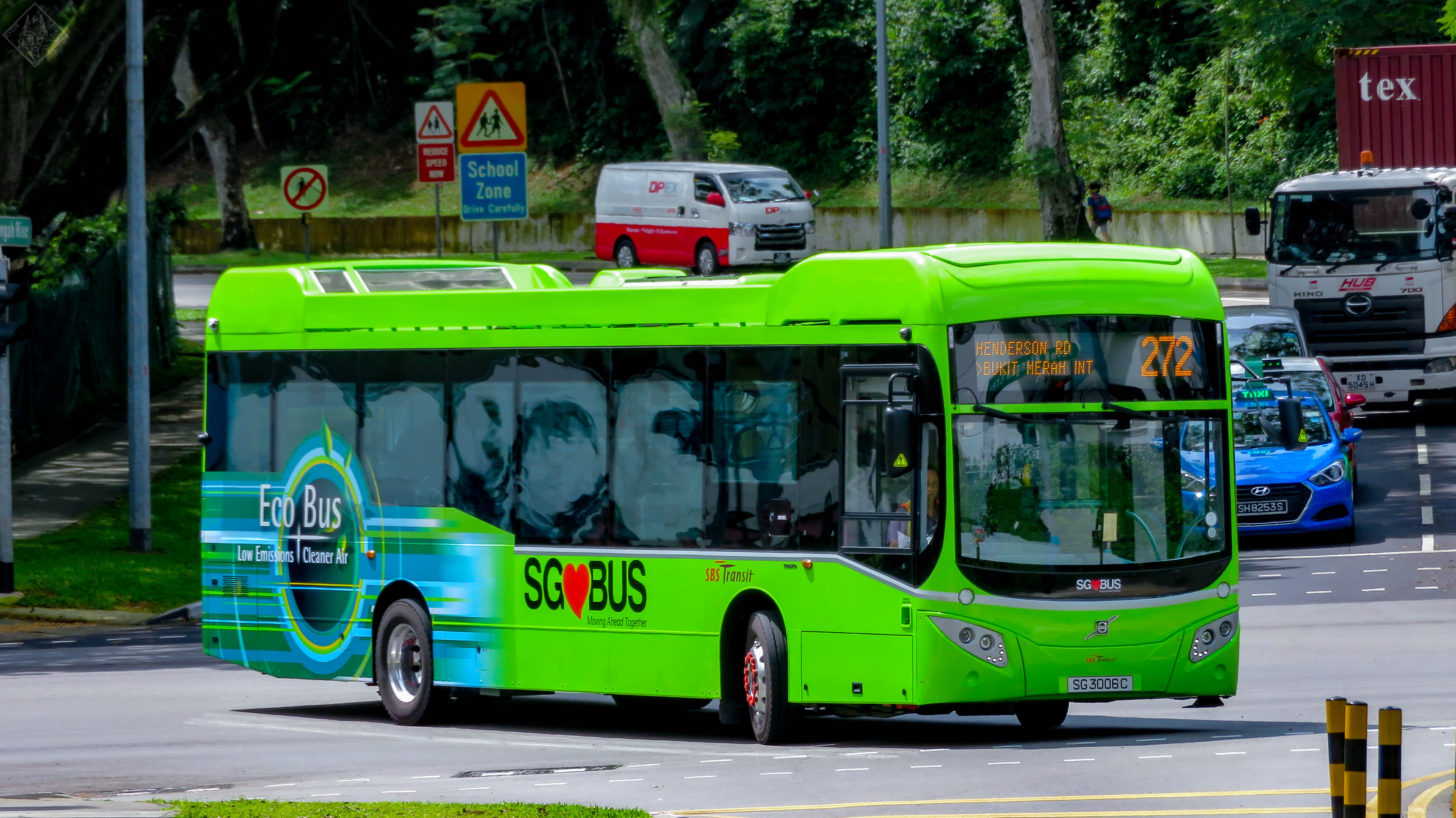 SG3006C - 272 Since 10th Dec 2018, these brand new hybrid buses have been running on the roads, boasting quieter and smoother rides to commuters, and yet saving fuel.